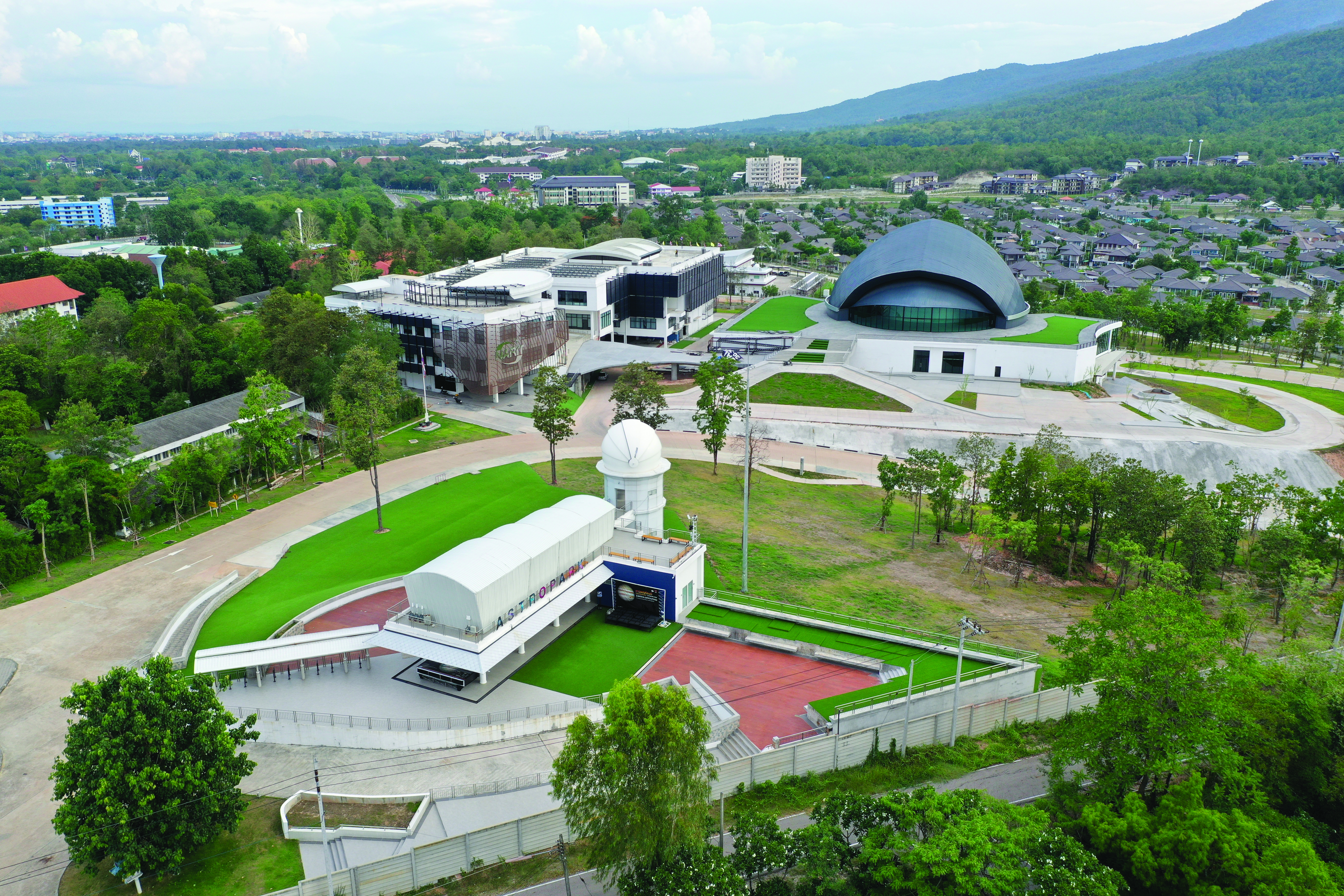 อุทยานดาราศาสตร์สิรินธร สำนักงานใหญ่ของสถาบันวิจัยดาราศาสตร์แห่งชาติ (องค์การมหาชน) ตำบลดอนแก้ว อำเภอแม่ริม เชียงใหม่